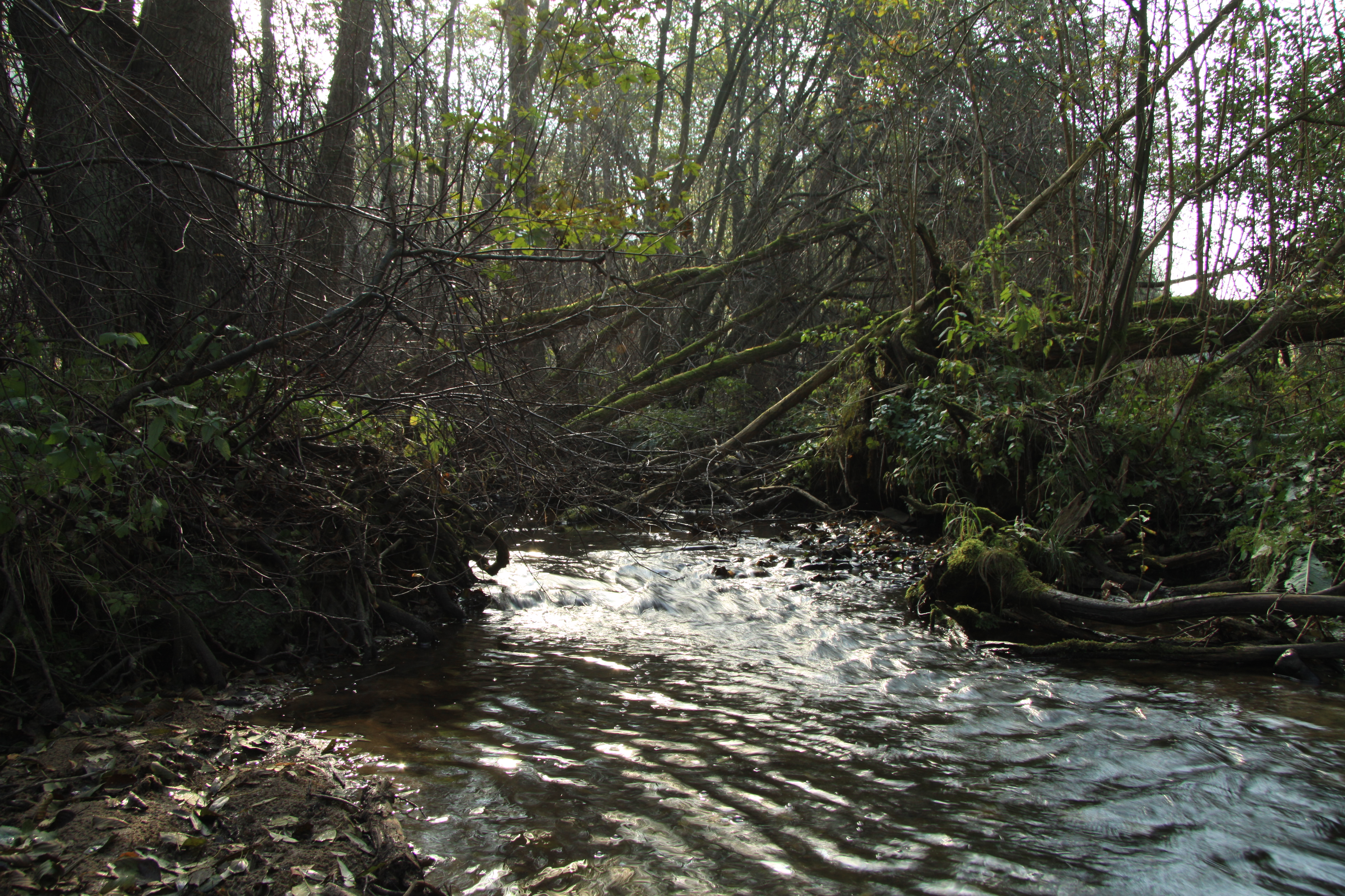 Křemžský creek in nature reserve Dobročkovské hadce near Dobročkov village, Prachatice District, Czech Republic Project: Chráněná území.